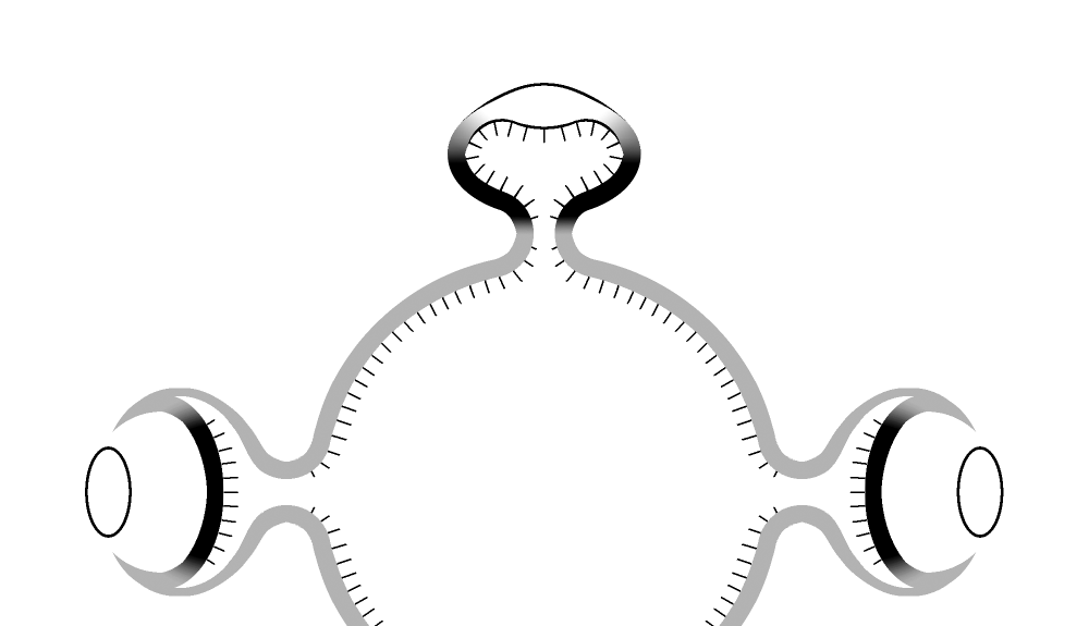 Scheme of eyes primordia: median (parietal, pineal) eye and lateral eyes. Black — retina, streaks — cilia.